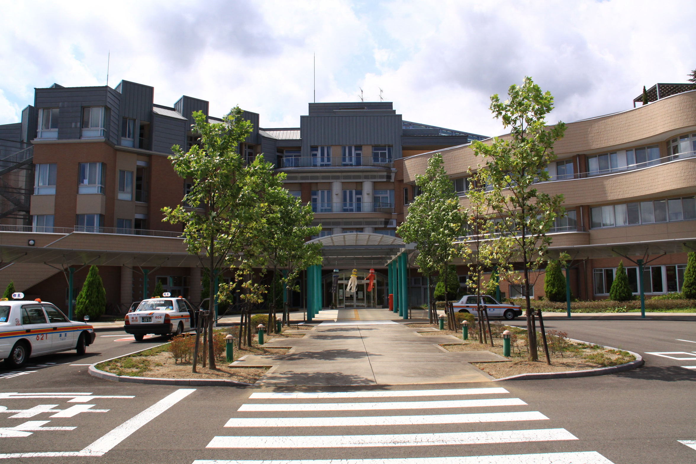 The approach of Miyagi Children's Hospital.